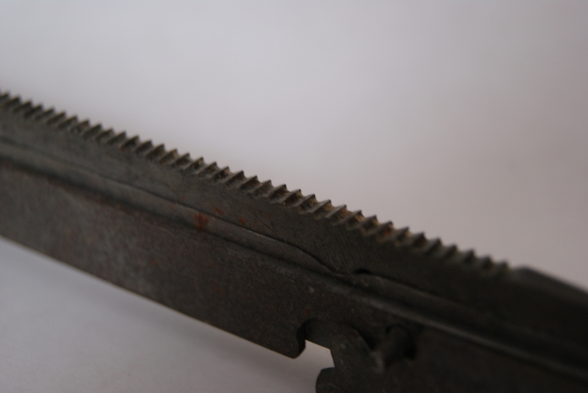 Bukfel